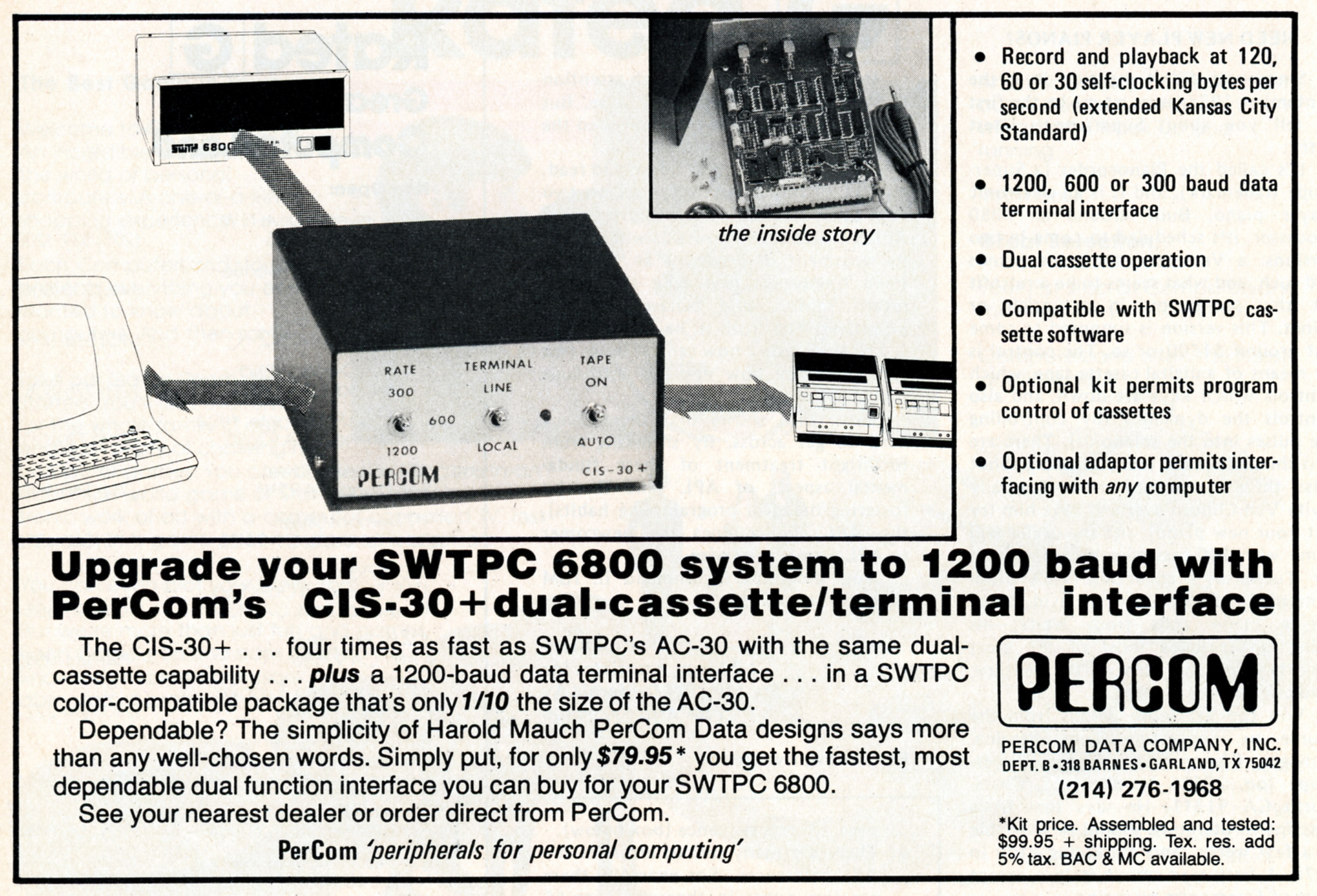 PerCom Data Co. was started by Harold Mauch in 1976 to manufacture peripherals for early home computers. Byte magazine sponsored a conference in Kansas City to define a standard for storing data on audio cassettes. Mauch attend that conference and wrote an article for Byte showing an example design. The CI-810 Cassette Interface was PerCom's first product. It connected to a parallel port and was followed by the CIS-30+ that connect to a serial port. These interfaces were typically used with Motorola 6800 based computers such as the SWTPC6800. The "Kansas City" standard recorded binary data using two tones (1200 Hz and 2400 Hz) at a 300 baud data rate. At 30 bytes per second it took over 4 minutes to load an 8K file.